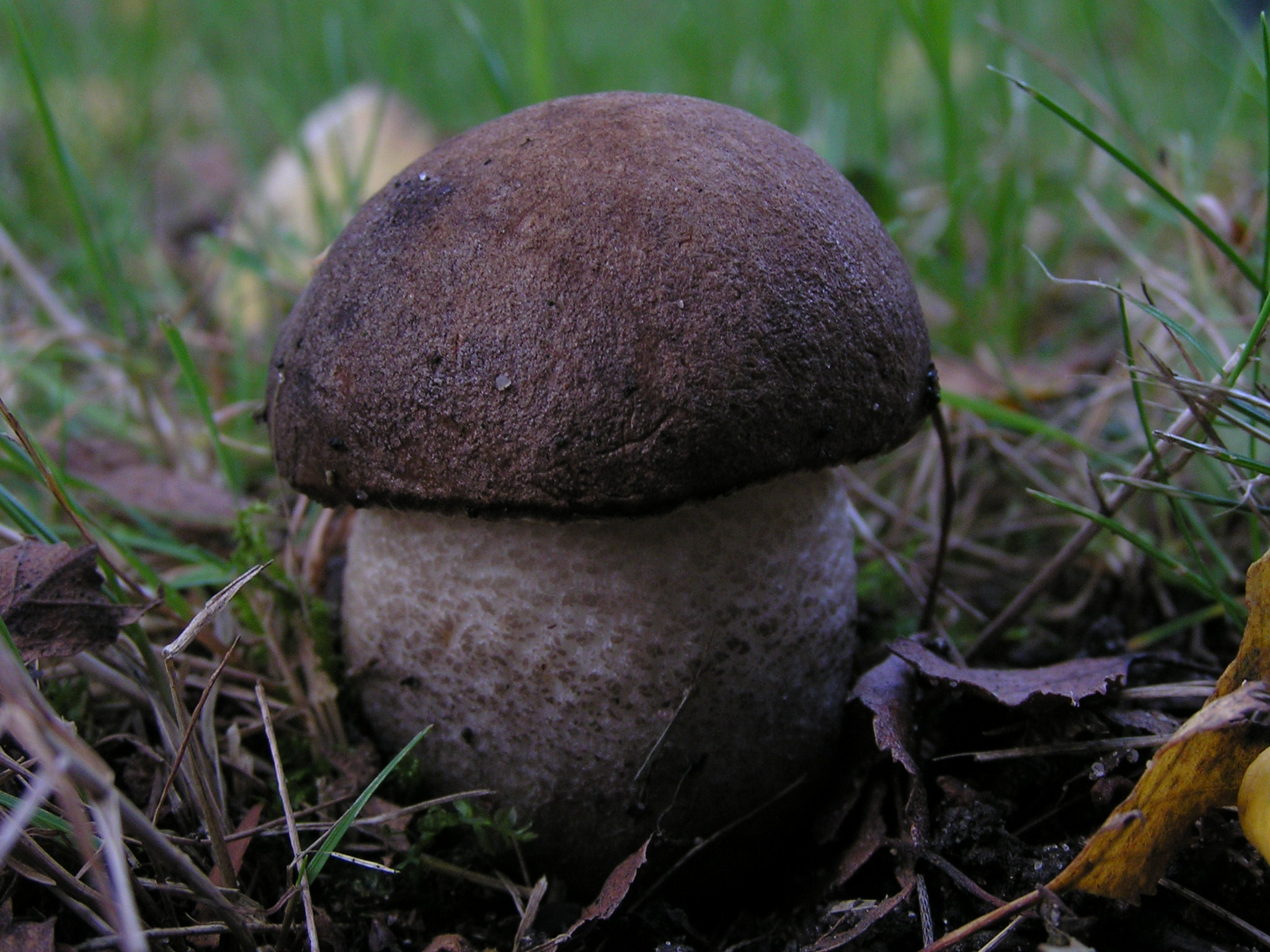 Unidentified mushroom Boletaceae possibly Leccinum scabrum, Boletus erythropus, Boletus pinophilus or Boletus aereus